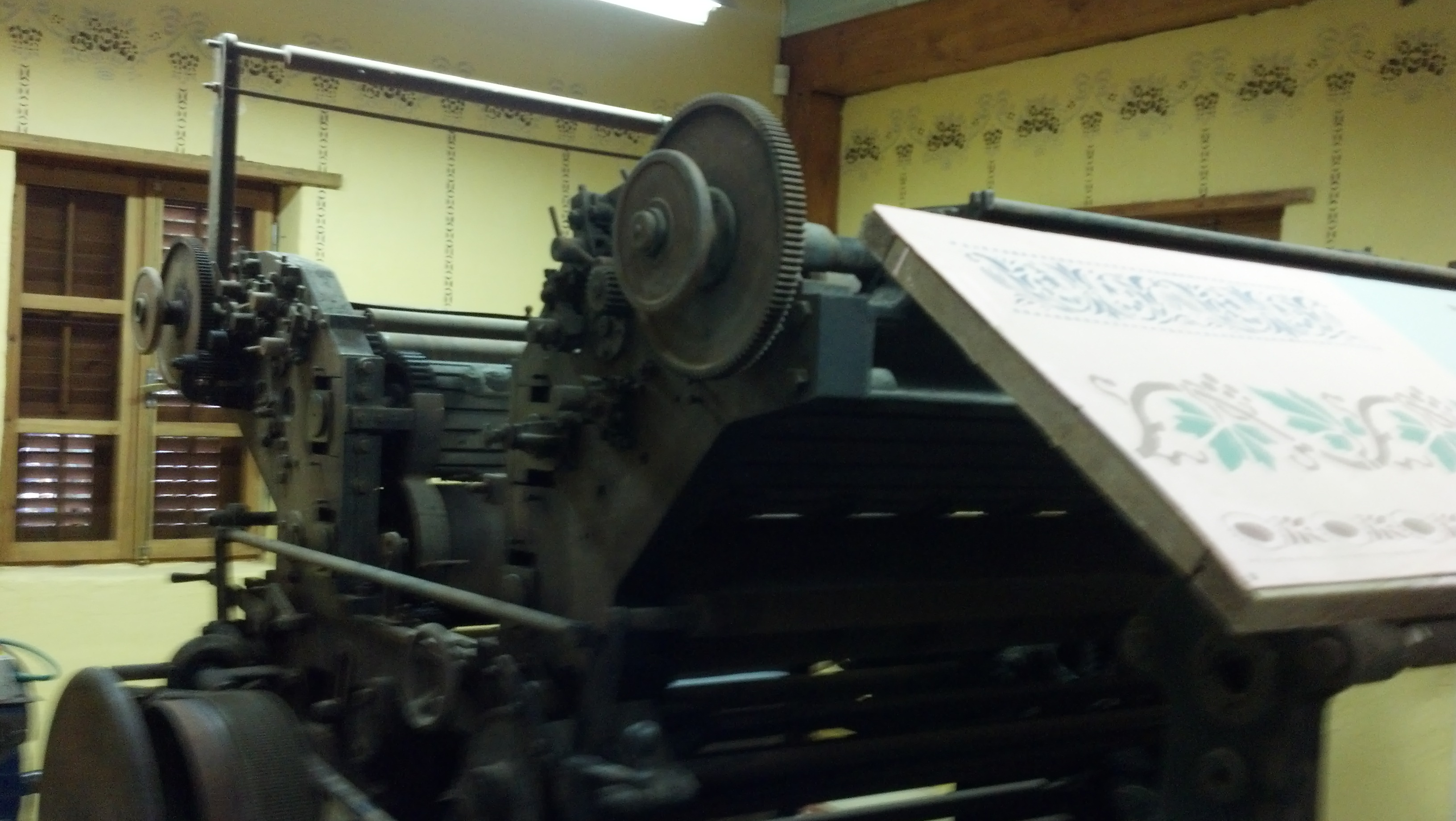 This printing machine served for printing the famous Jaffa Orange logo. It was located in a private house in Petakh Tiqva, Israel